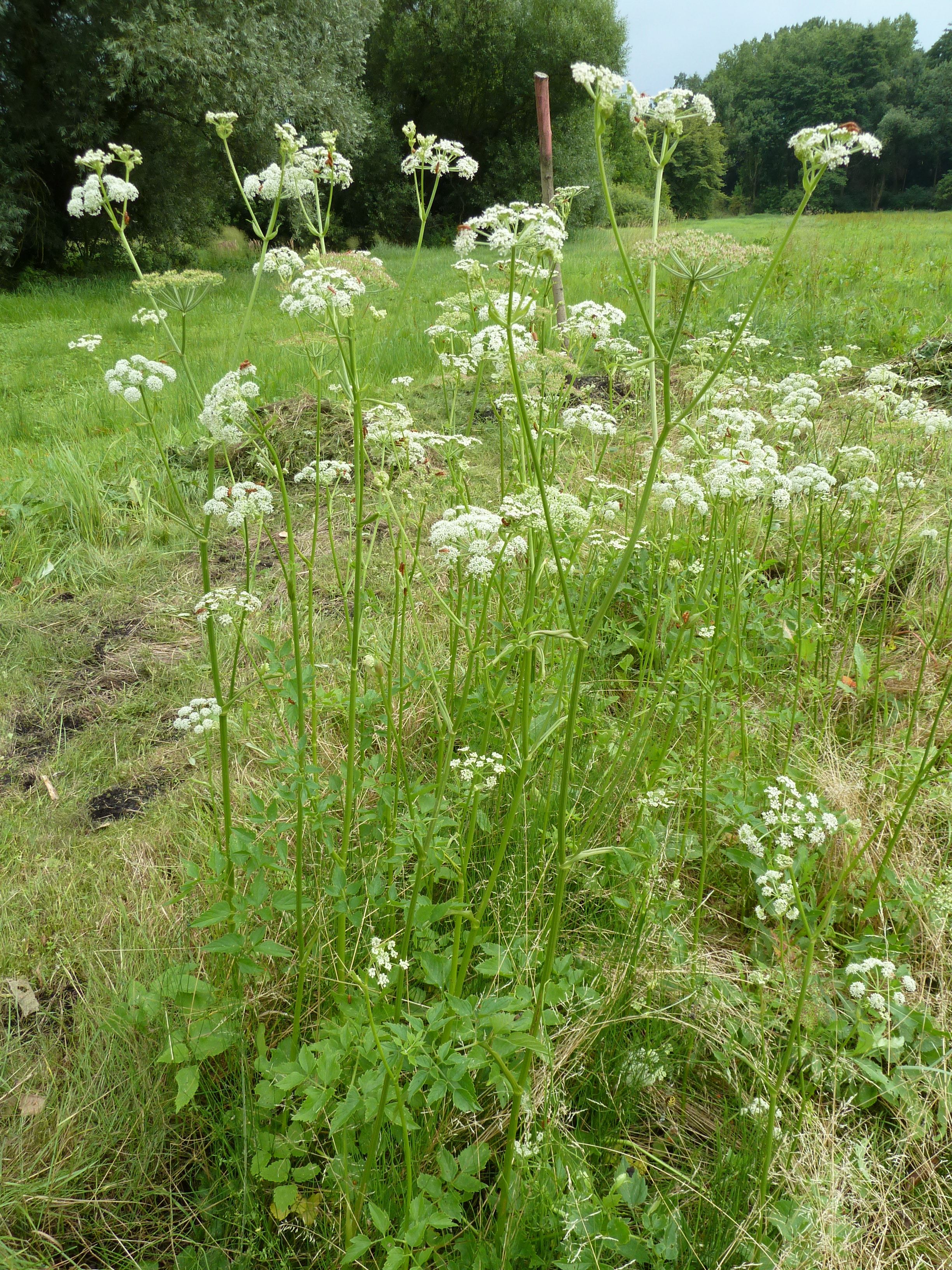 Endangered plant Angelica palustris in National natural monument Hrdibořické rybníky (central Moravia, Czech Republic) - the only locality in the Czech Republic